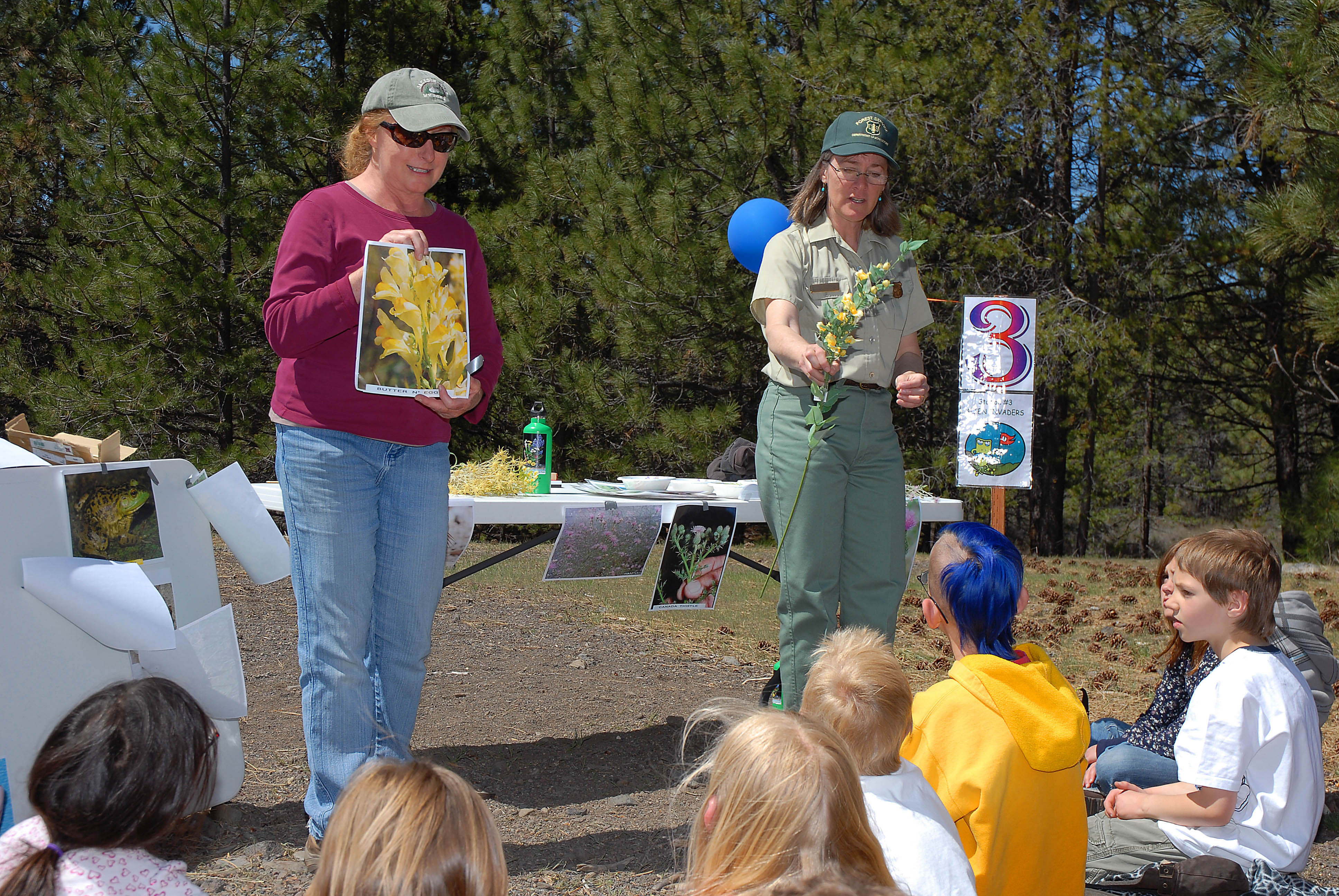 Youth Outdoor Education_Deschutes National Forest